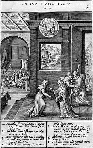 Plate from of Evangelicae and Adnotationes, engravings which illustrate the Biblia Natalis through the vision of the Wierix brothers: Jan (1549-1618), Hieronymus (1553-1619) and Antoine II (1555/9-1604). The engravings were made after drawings by Bernardo Passari and Maarten de Vos.